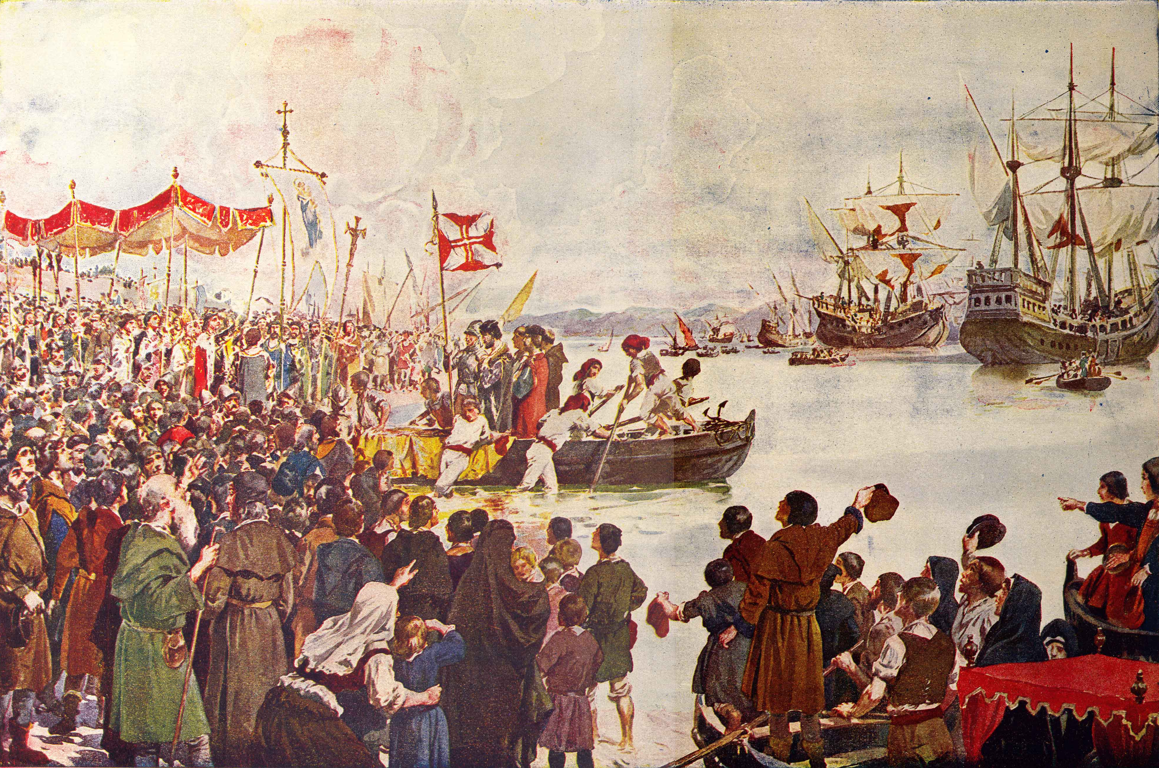 "Departure of Vasco da Gama to India", by Roque Gameiro, in Quadros da História de Portugal ("Pictures of the History of Portugal", 1917).